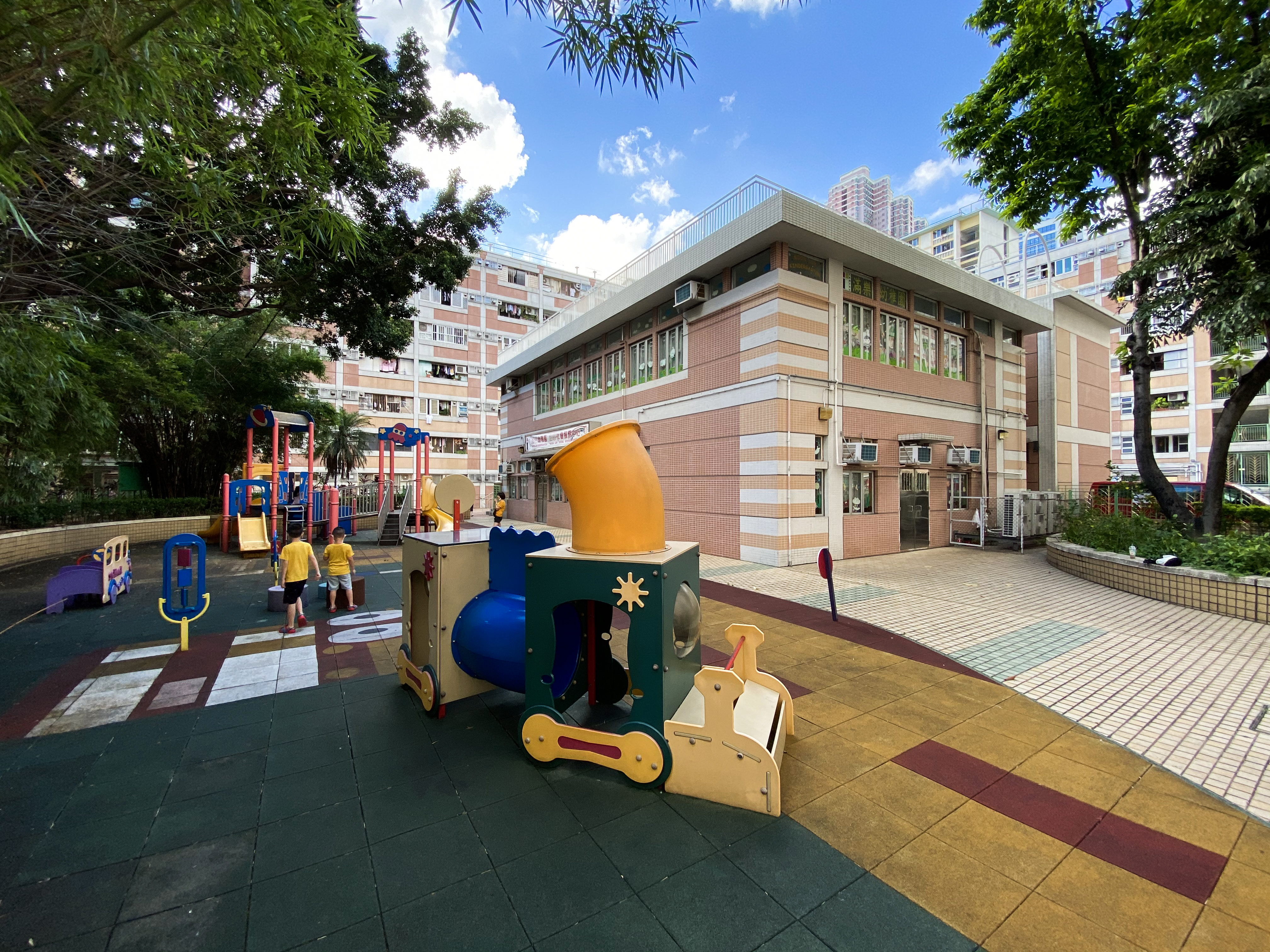 Moon Lok Dai Ha Children Play Area